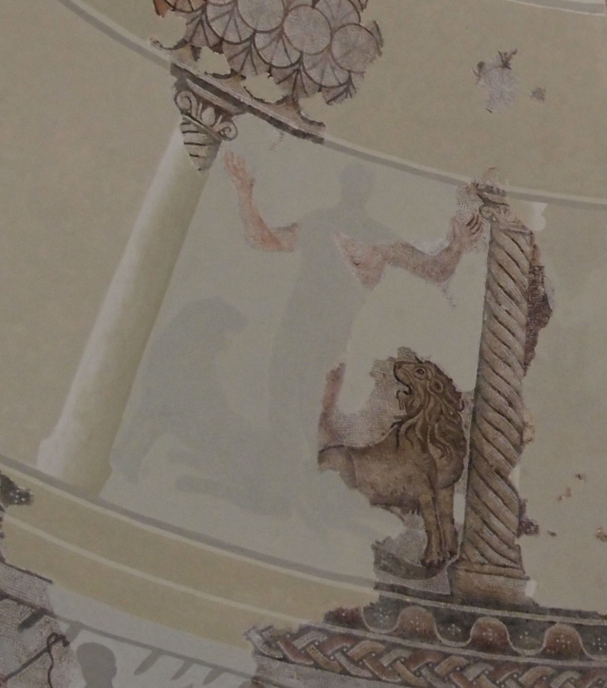 Escena de Daniel en el foso de los leones